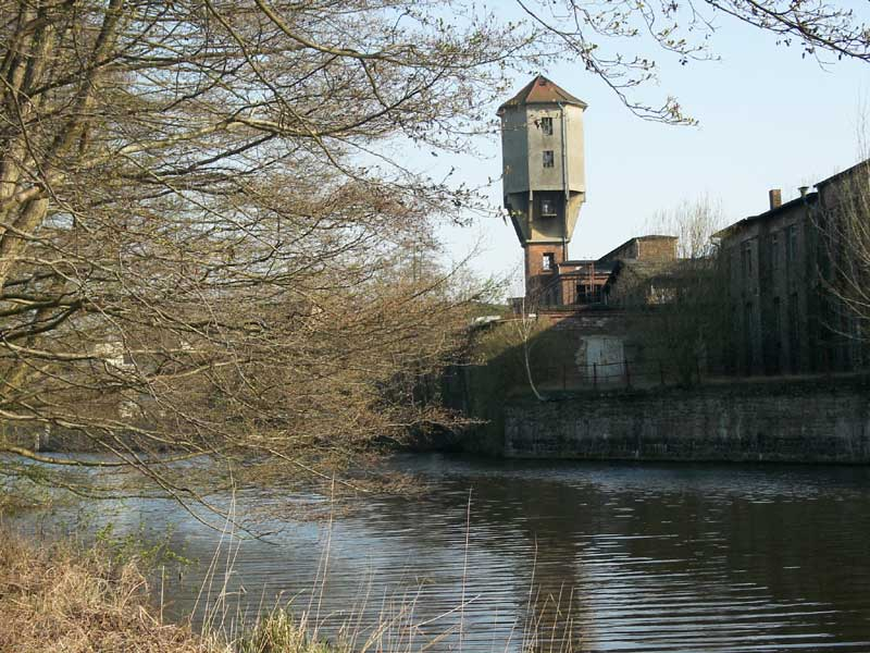 Finowkanal at paper mill Wolfswinkel